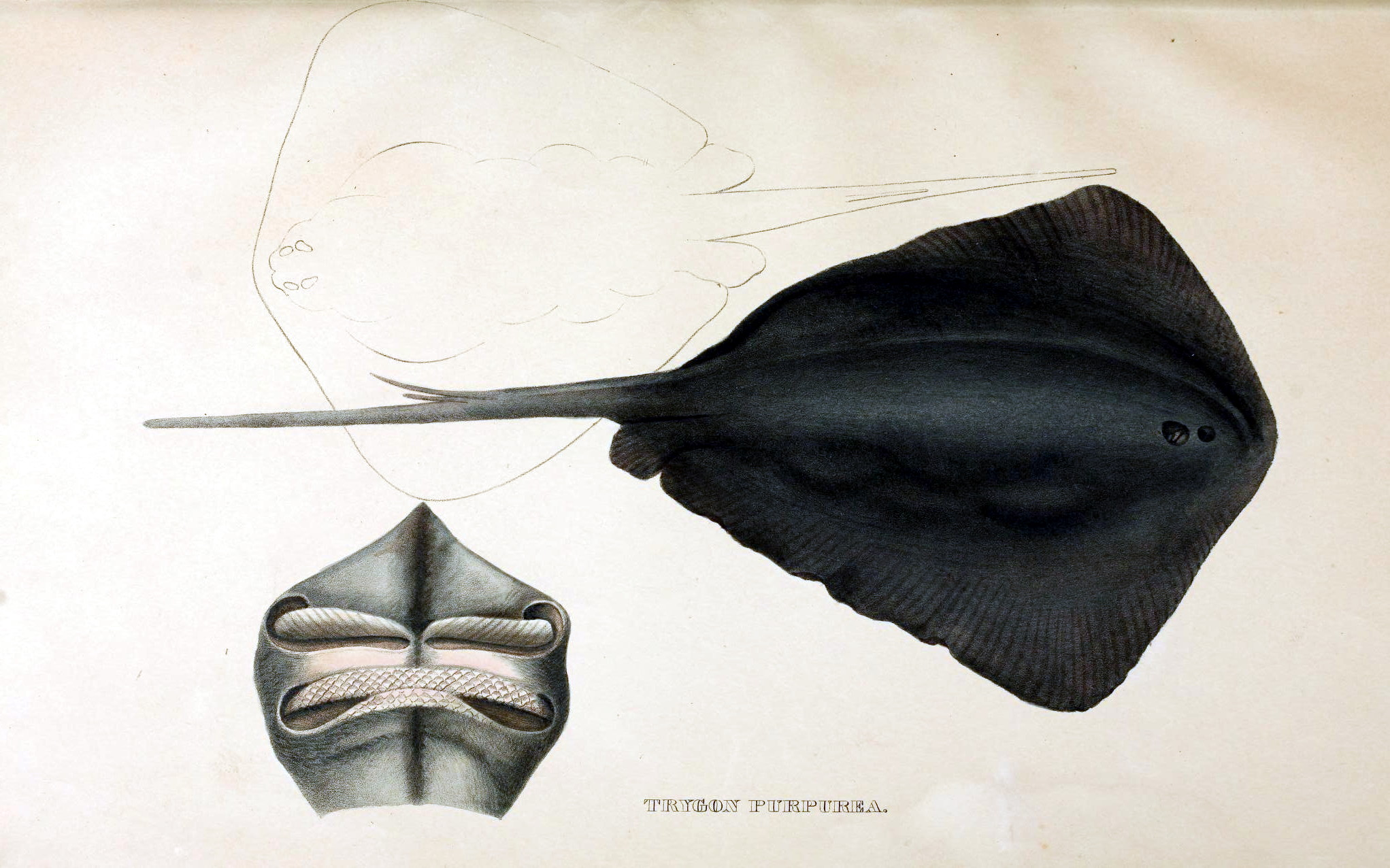 Dasyatis purpurea (Müller & Henle 1841)=Pteroplatytrygon violacea (Bonaparte, 1832) FishBase link : species Pteroplatytrygon violacea (Bonaparte, 1832) (Mirror site1, 2, 3, 4); common names (mirror) World Register of Marine Species link: Dasyatis purpurea (Müller & Henle, 1841) Invalid World Register of Marine Species link: Pteroplatytrygon violacea (Bonaparte, 1832)